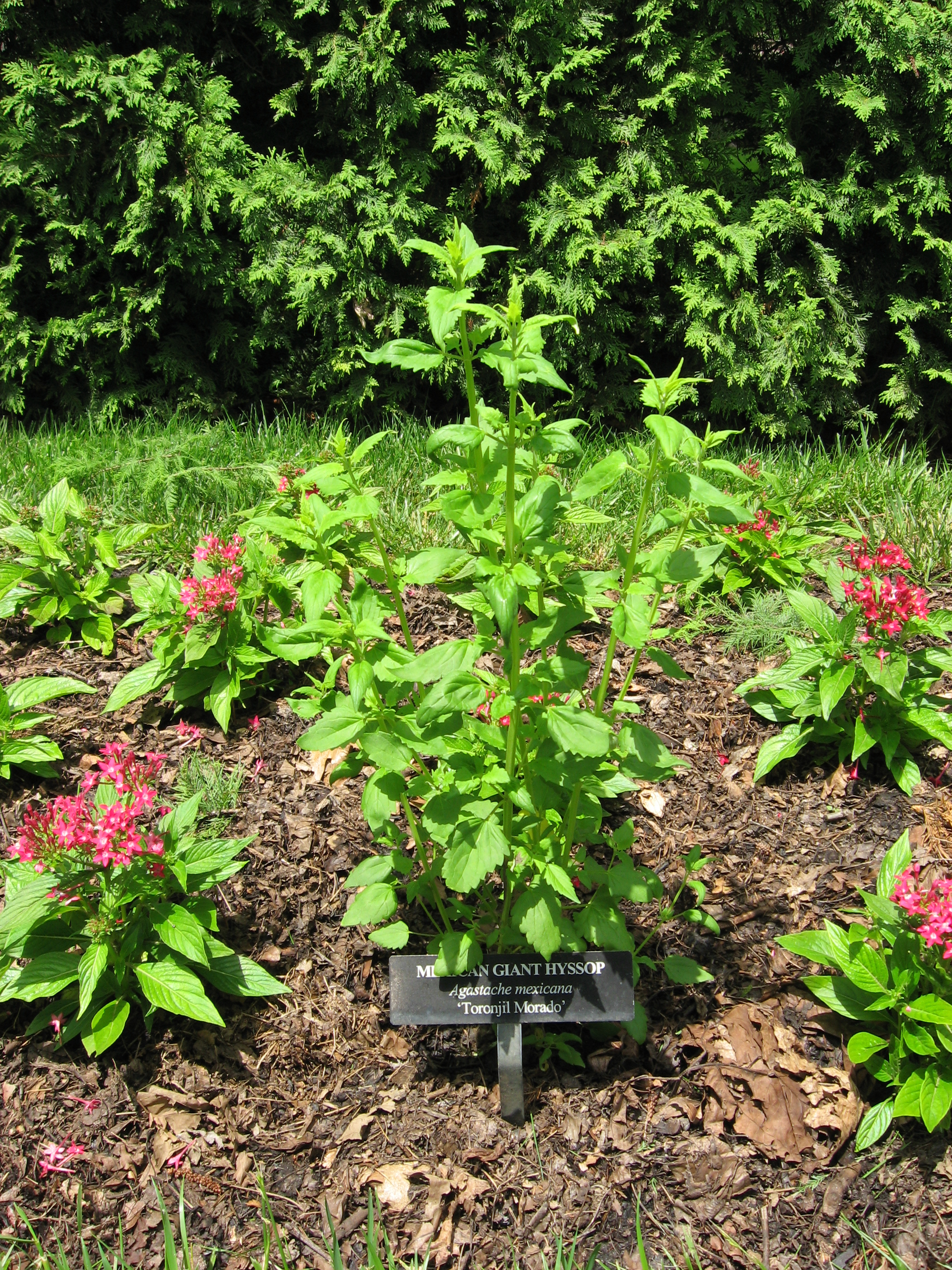 A picture of Agastache mexicana 'Toronjil Morado'.